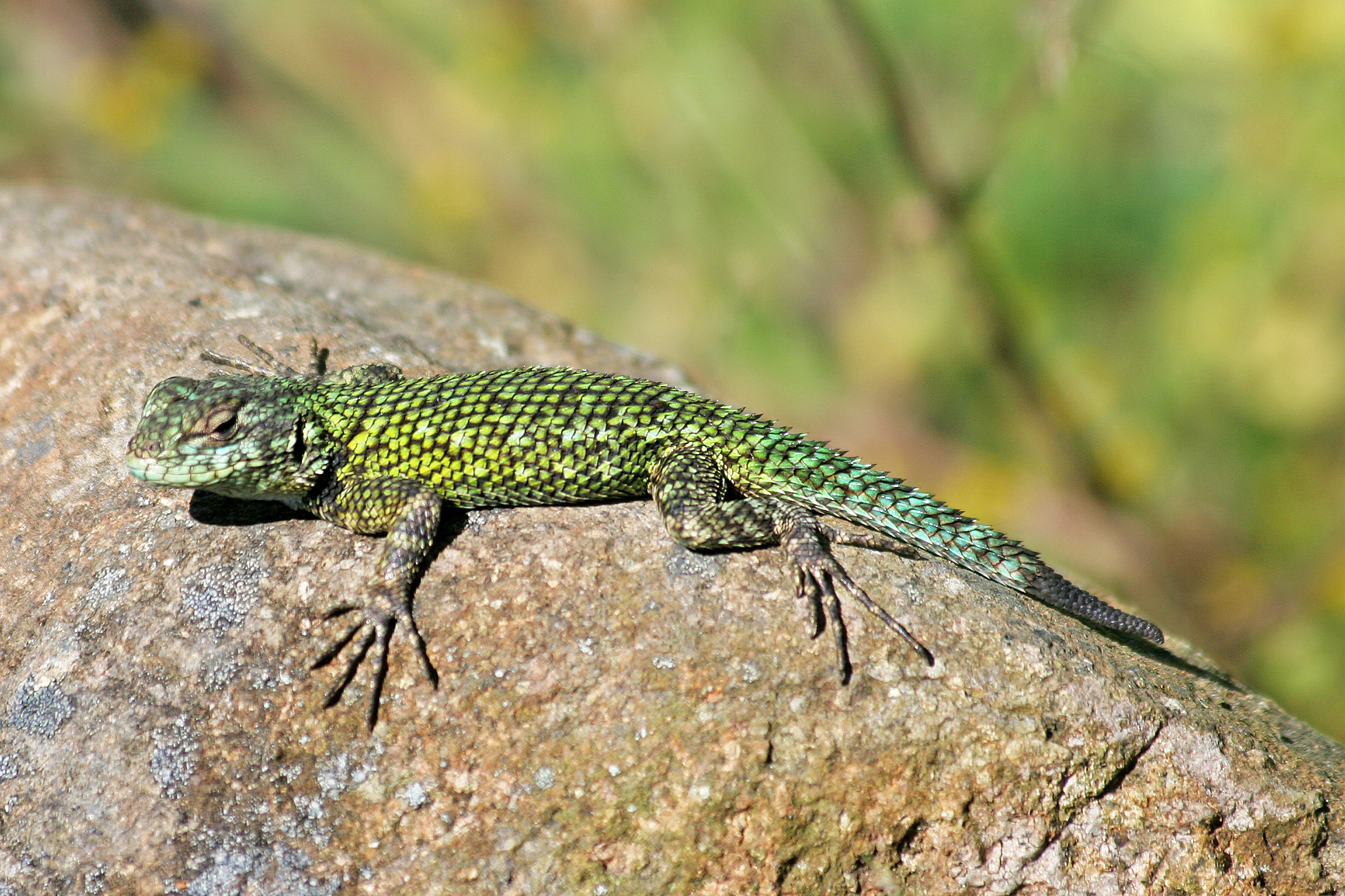 Taken in Savegre, Costa Rica.